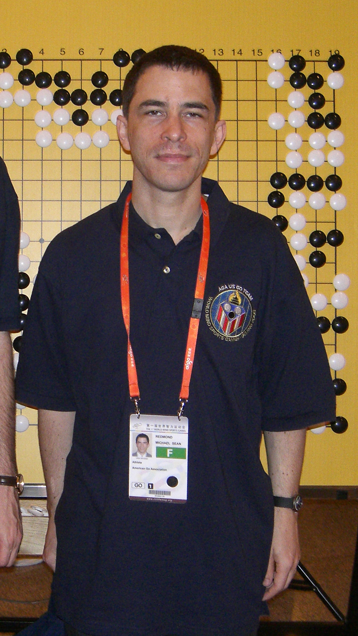 Michael Redmond (right) - 9-Dan professional Go player - in AGA team uniform at the inaugural World Mind Sports Games (WMSG), held in the Olympic Village, Beijing, in October 2008.